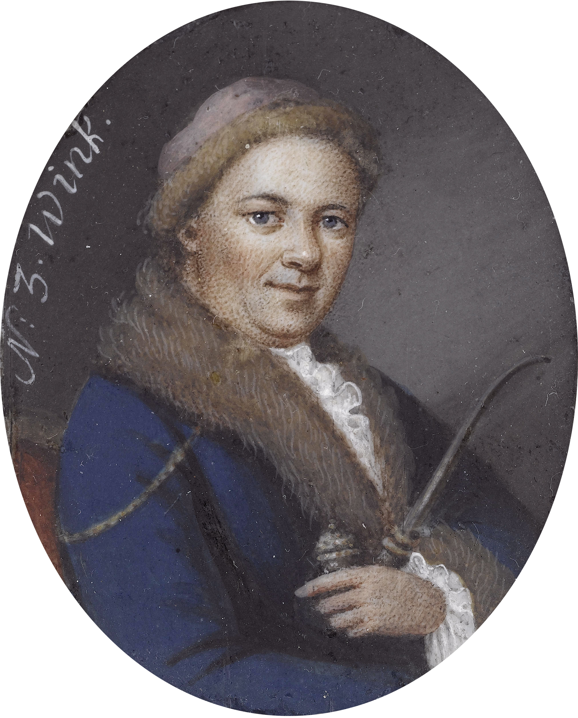 Johann Christian Thomas Wink (German, 1738-1797)